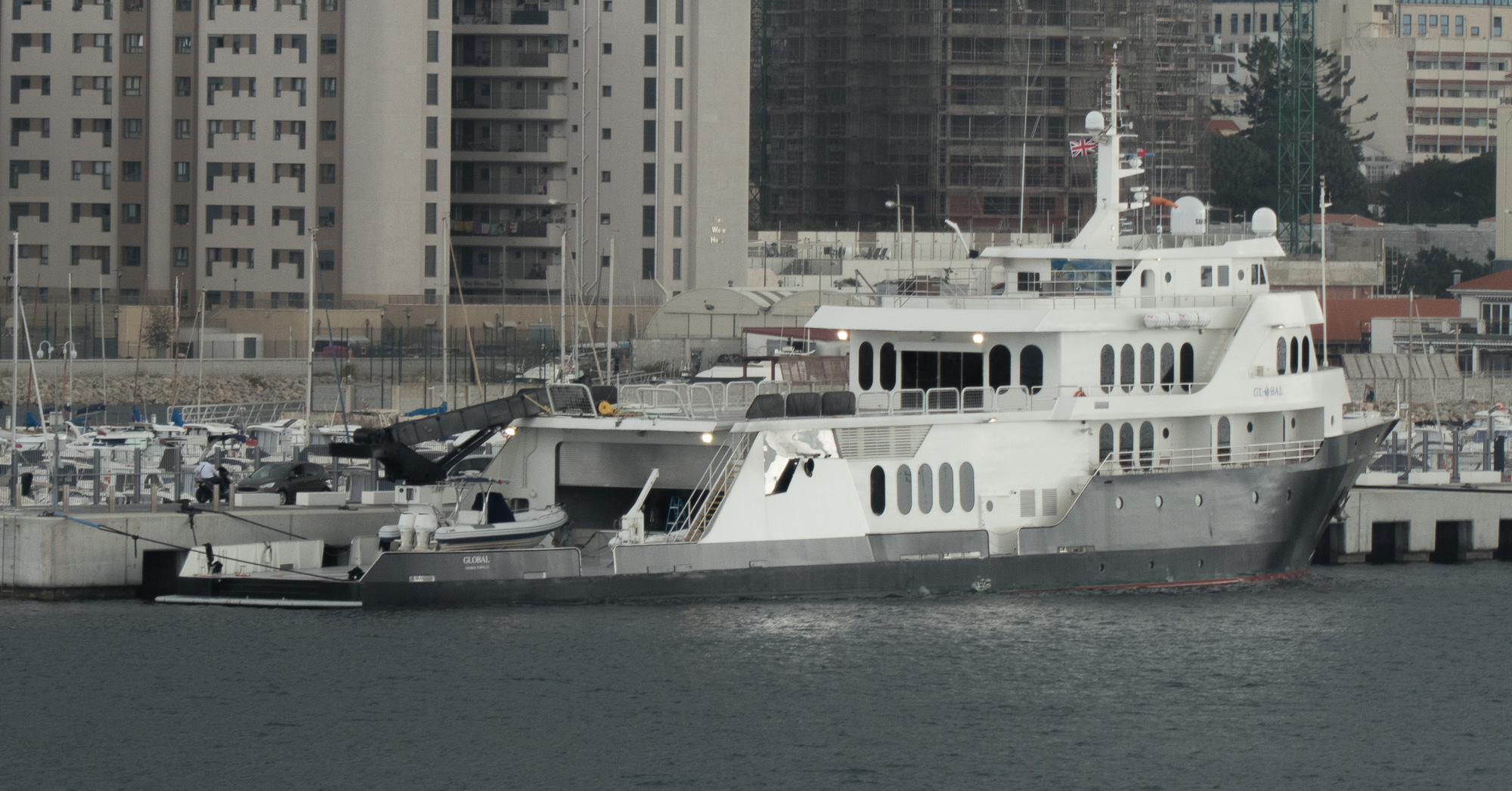 Support vessel for a superyacht, quayside at the port of Gibraltar.